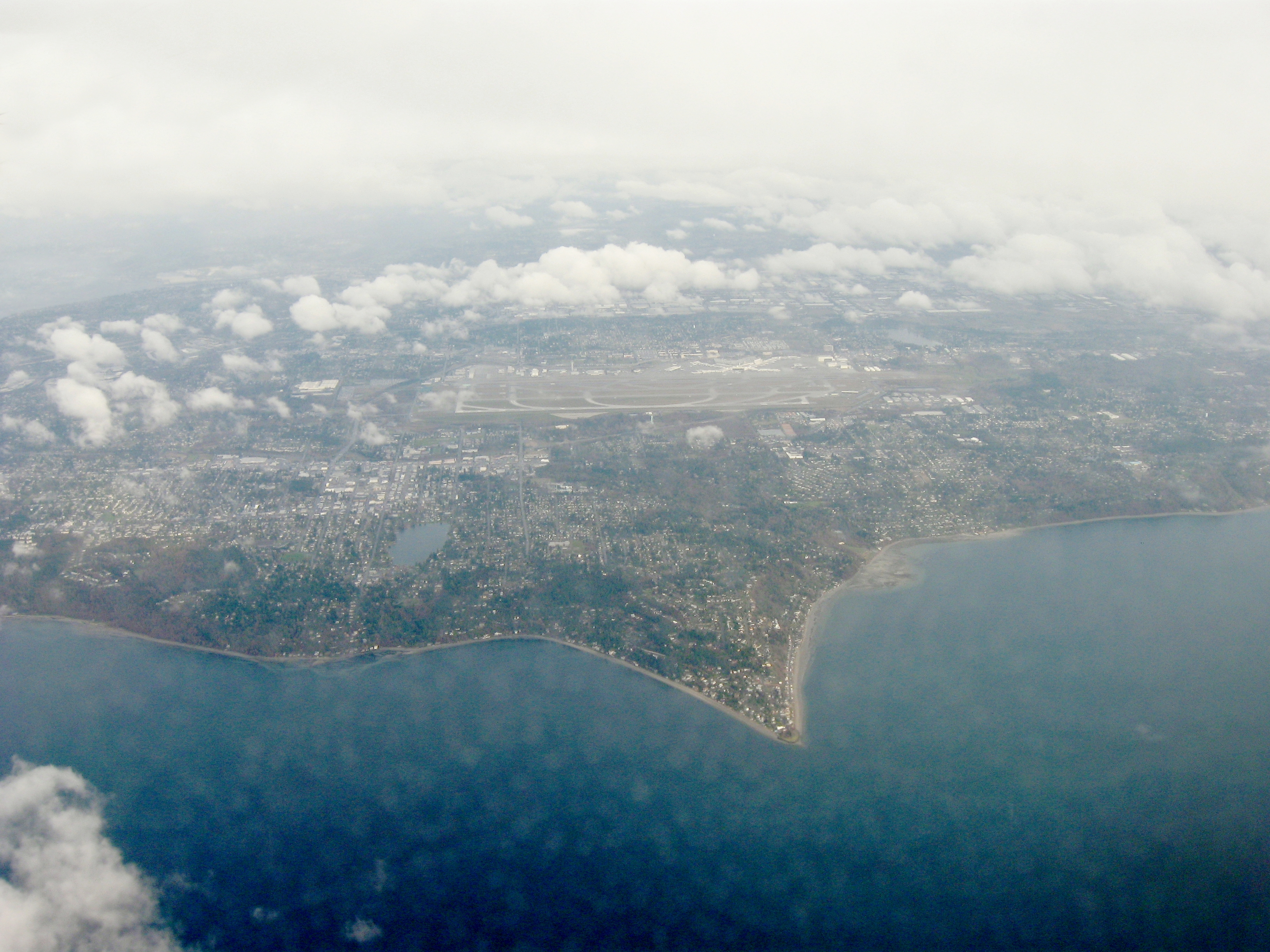 Aerial view of Three Tree Point near Seattle, surrounded by Burien, with SeaTac International Airport behind it.